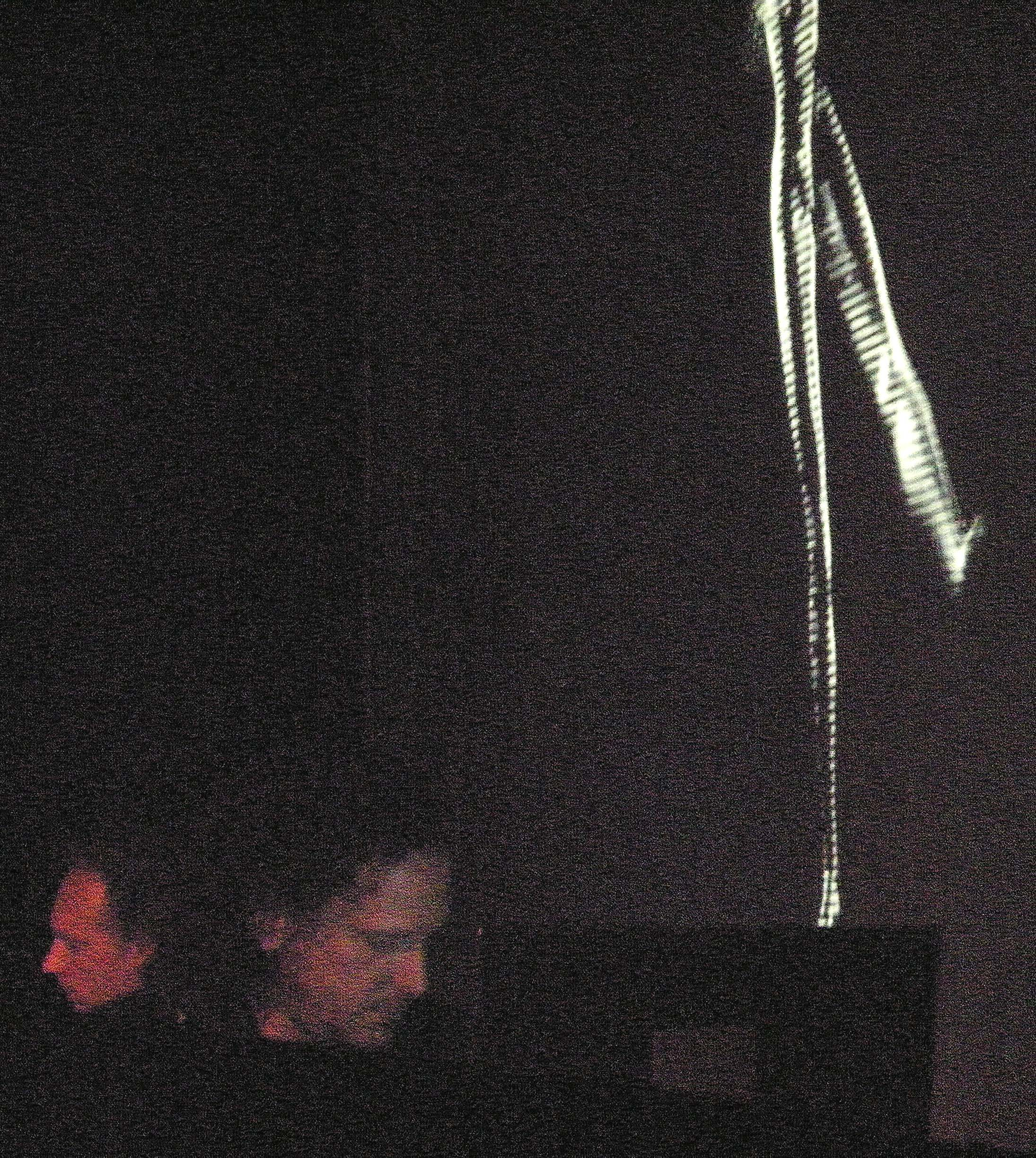 Austrian Band TOSCA performing 'No Hassle' (their new album) at Minoritenkirche, Vienna. Note: Camera time is set on UTC, which is local time -2.